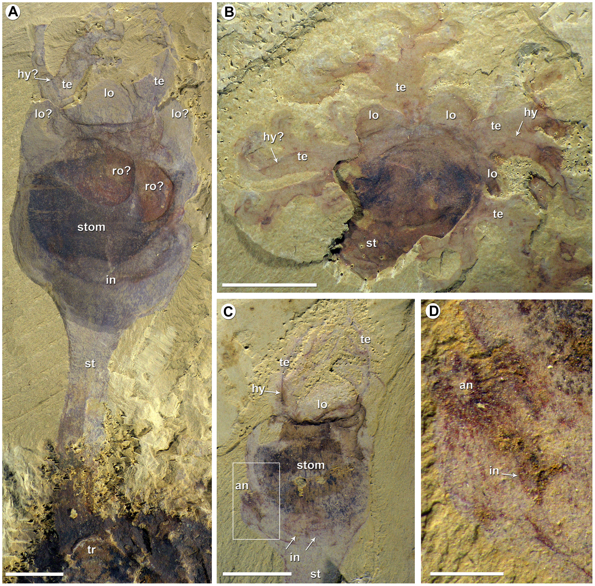 Phlogites longus from the Lower Cambrian Chengjiang biota